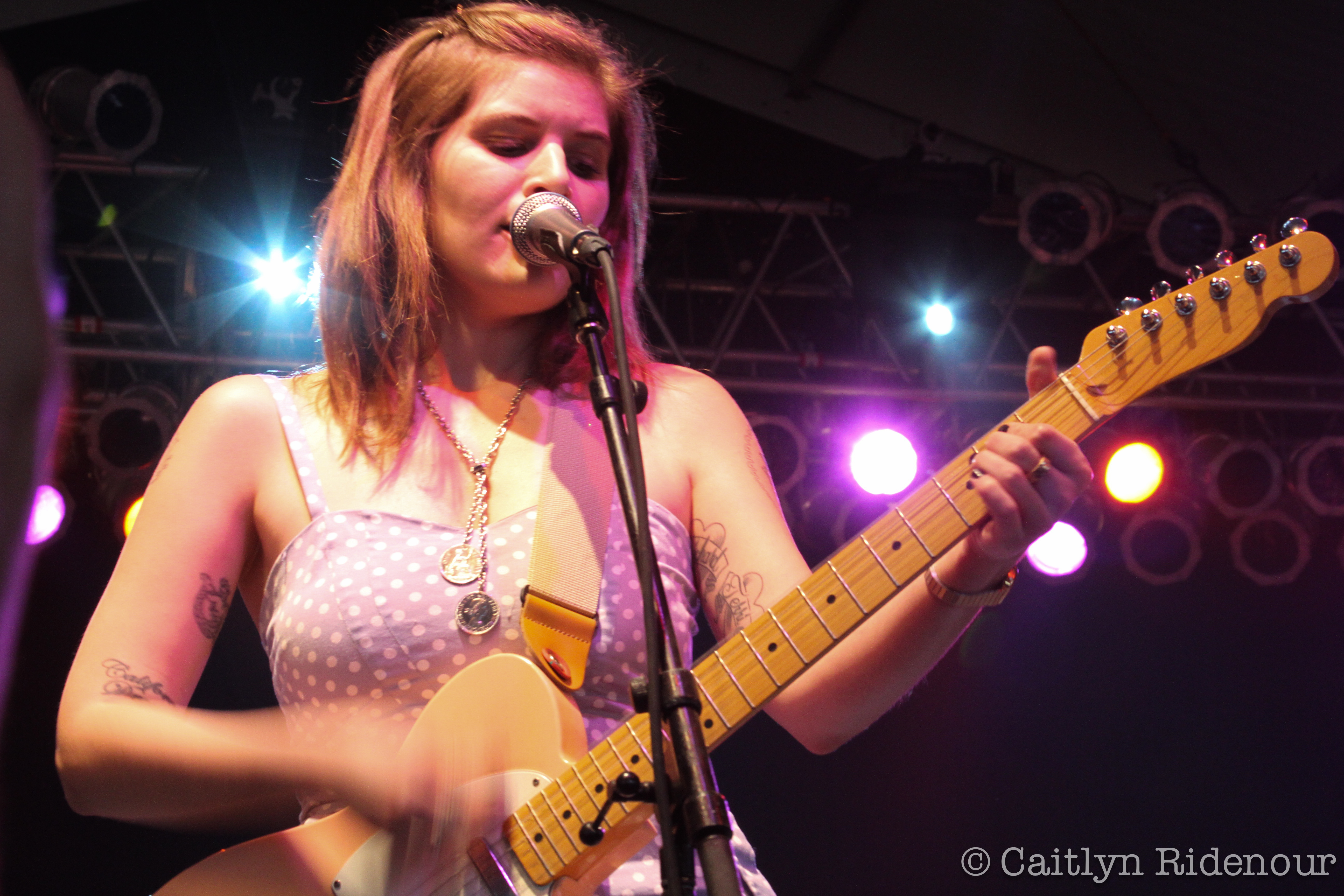 Best Coast Performs at Bonnaroo 2011